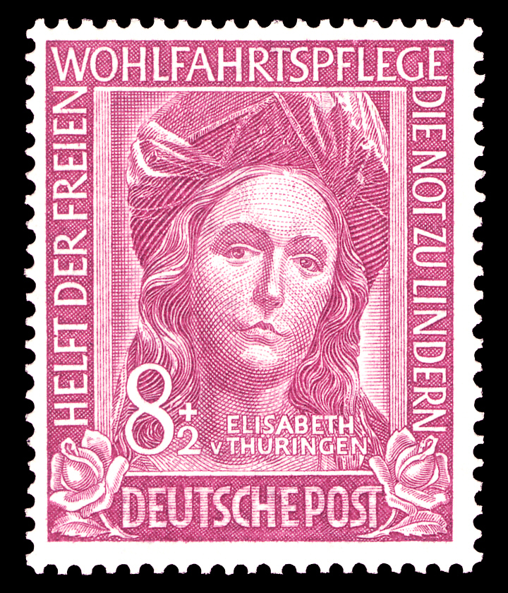 Social welfare stamp series 1949, Elisabeth von Thüringen (1207-1231) Ausgabepreis: 8+2 Pfennig First Day of Issue / Erstausgabetag: 14. Dezember 1949 Michel-Katalog-Nr: 117